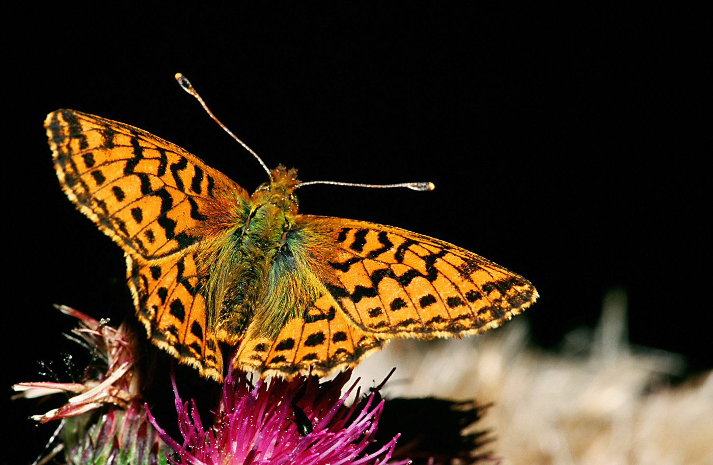 Cranberry Fritillary (Boloria aquilonaris) in Commerauer Jesor (Saxony, Germany)